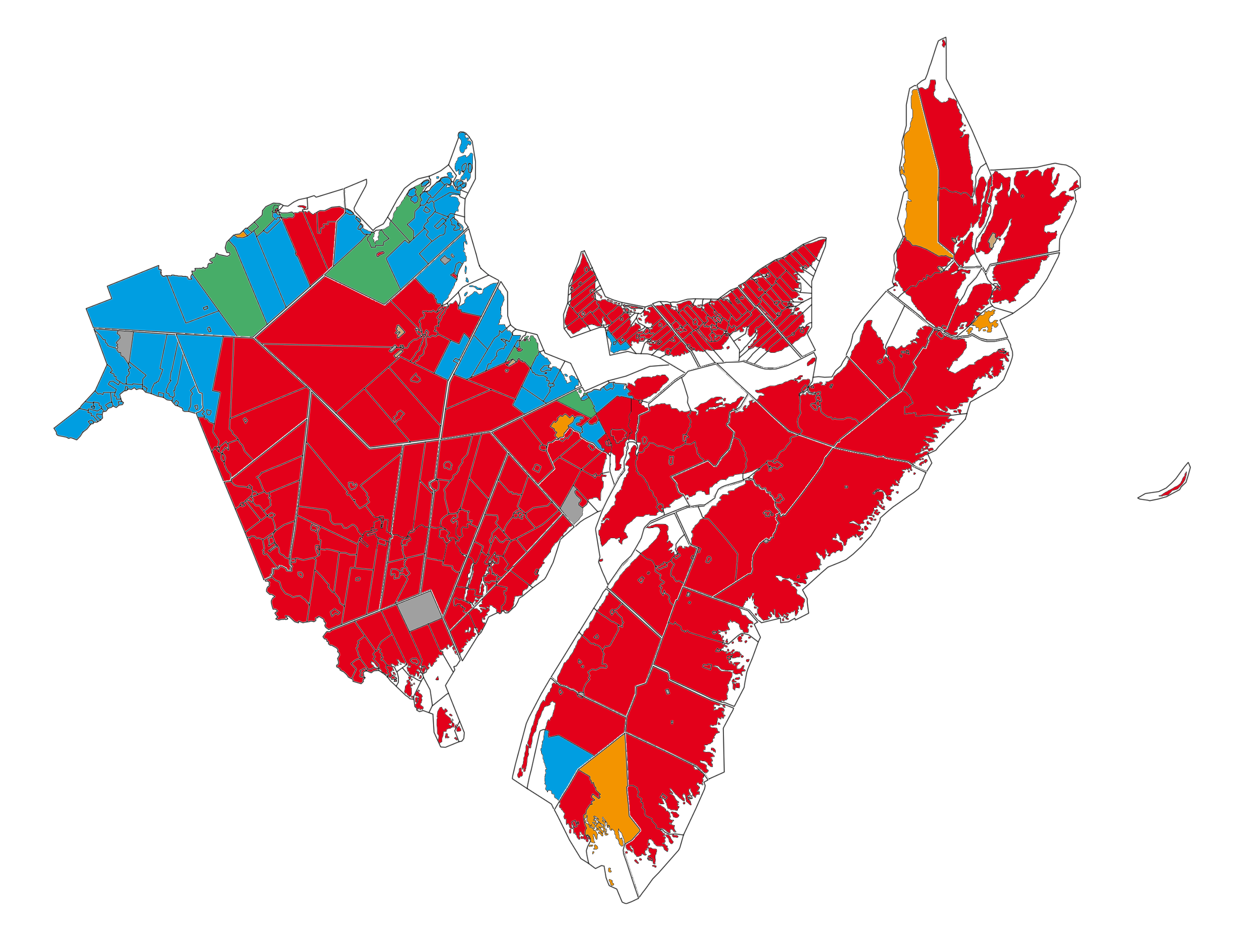 Map of language in the maritimes provinces of Canada (data source : Statistics Canada, 2006 census). red - English speaking majority, less than 33% of French speaking orange - English speaking majority, more than 33% of French speaking blue - French speaking majority, less than 33% of English speaking green - French speaking majority, more than 33% of English speaking brown - allophone majority (natives) grey - no data available